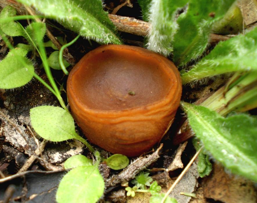 A fruit body of a fungus tentatively identified as Aleurina ferruginea (W. Phillips) W.Y. Zhuang & Korf. Specimen photographed in Bendigo Regional Park, Lockwood, Victoria, Australia.